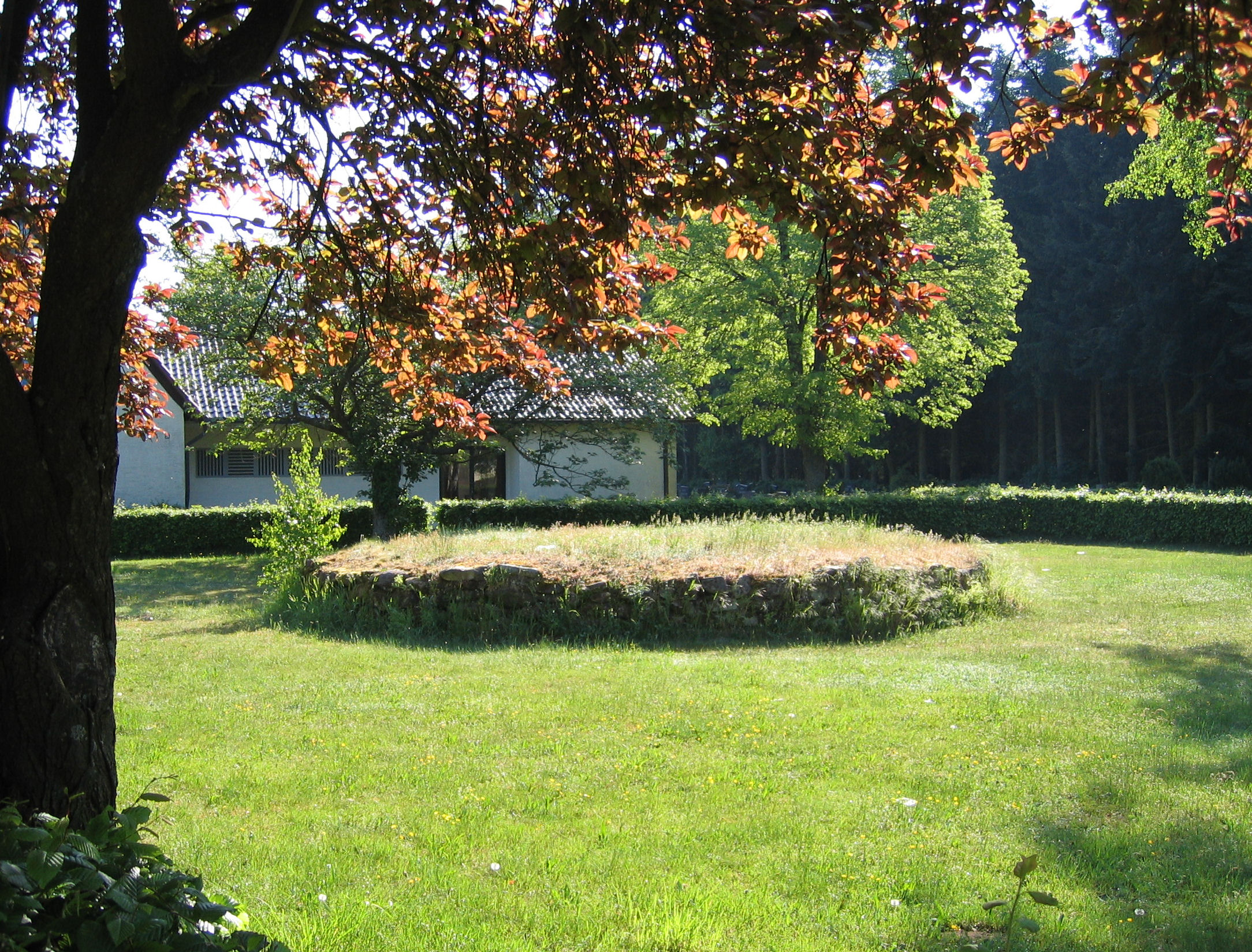 view of Mehlingen, Germany